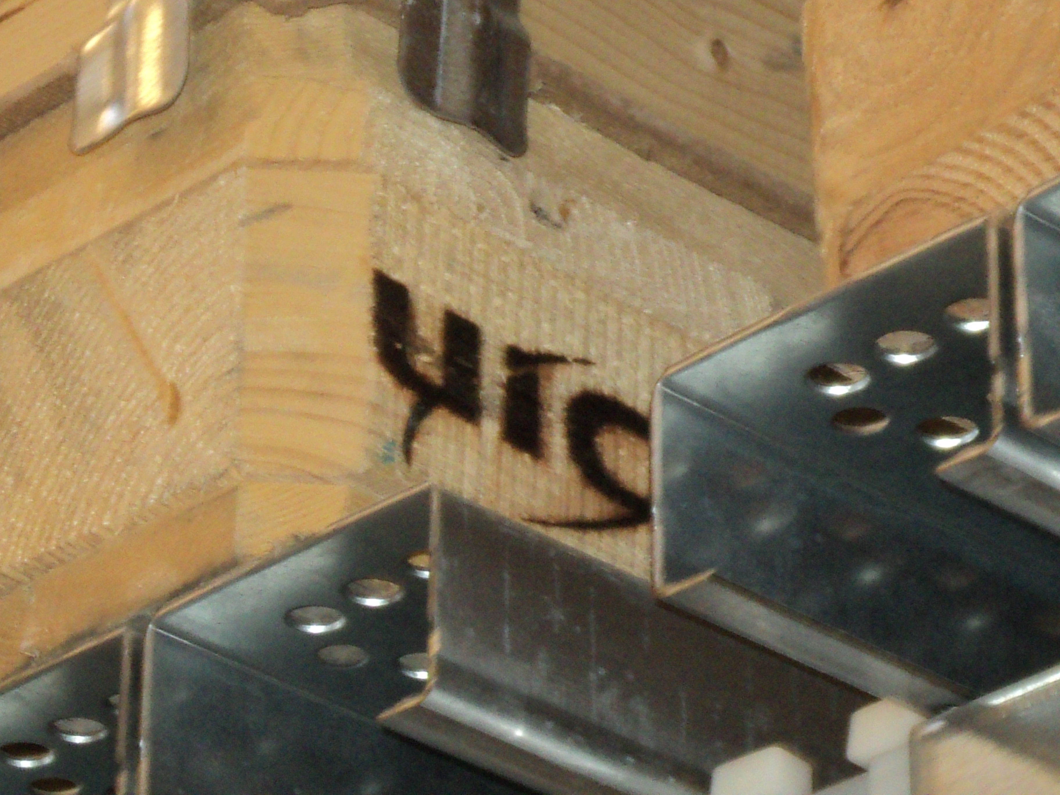 UIC mark on a pallet at a Canadian IKEA store.